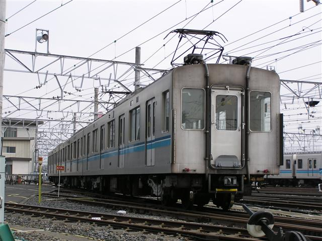 Tokyo Metro 05 Series EMU at Fukagawa Depot